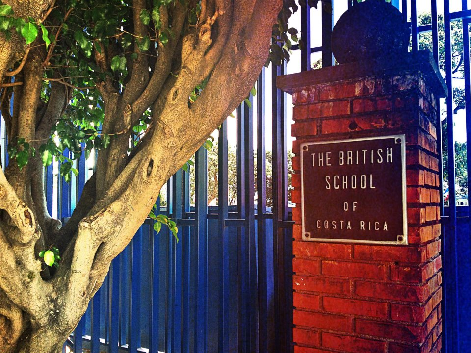 The British School of Costa Rica is an independent day school offering an excellent bilingual education from Early Years 1 to 12th Grade (K-12)